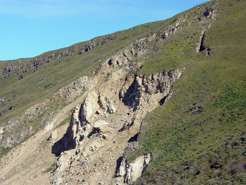 Landslide on Mission Peak, Fremont, California